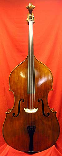 Double bass.